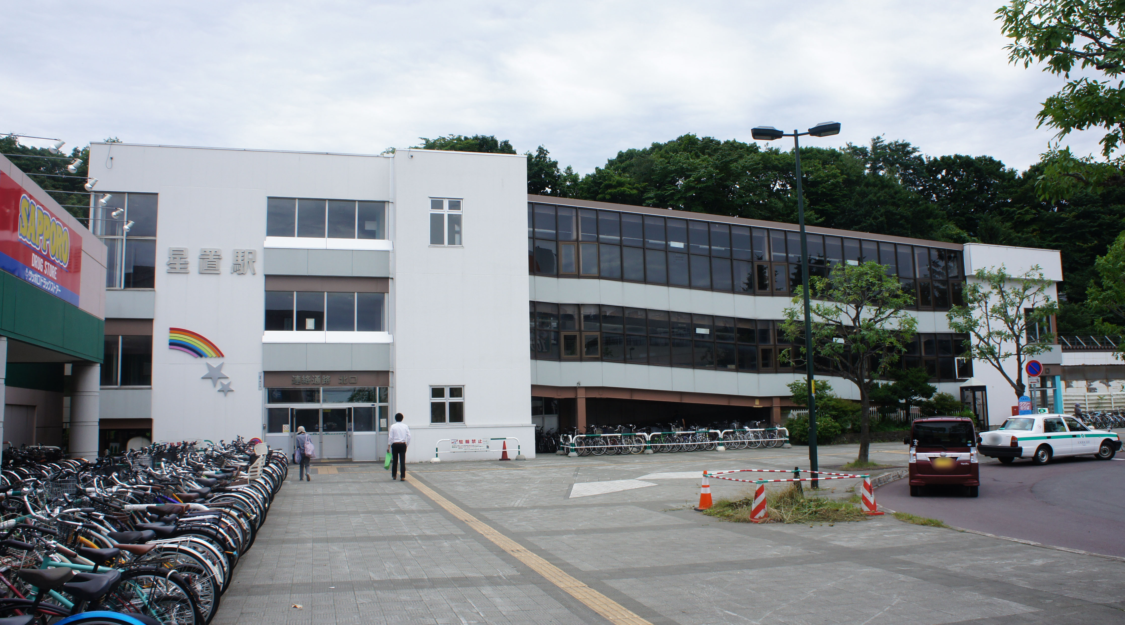 North Exit of JR Hakodate-Main-Line Hoshioki Station